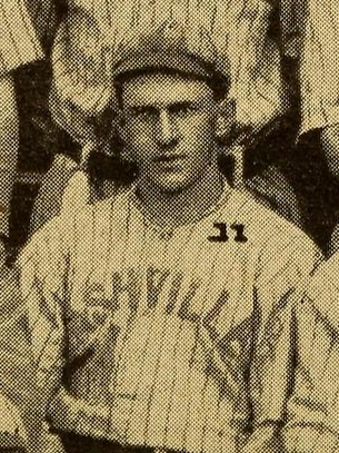 Tom Rogers of the 1916 Nashville Vols, a minor league baseball team from Nashville, Tennessee